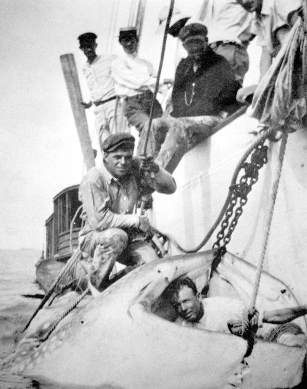 The whale shark weighed 30,000 pounds and was 45 feet long